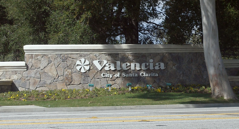 A sign welcoming visitors to Valencia. This sign is located on McBean Parkway at the interchange with the Golden State Freeway (Interstate 5), near the California Institute of the Arts.